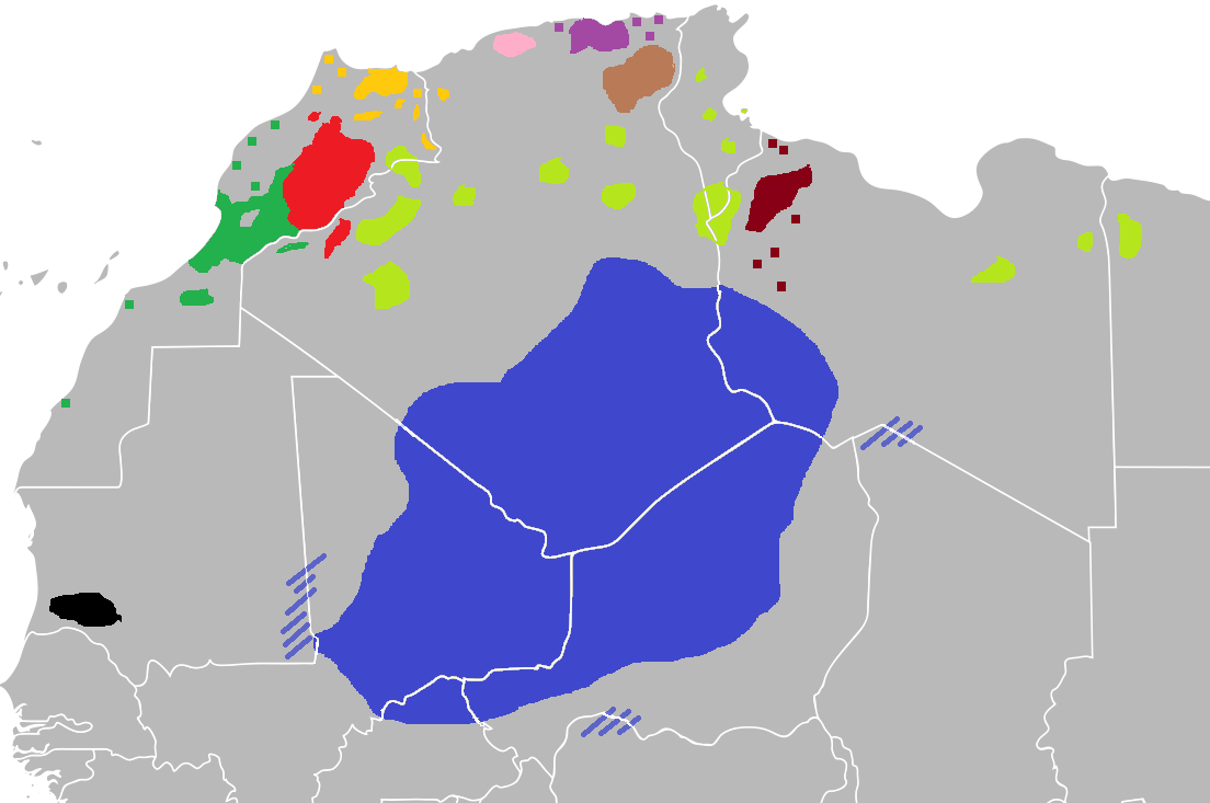 This is a map of North Africa showing where the different dialects of the Berber language are mostly spoken.